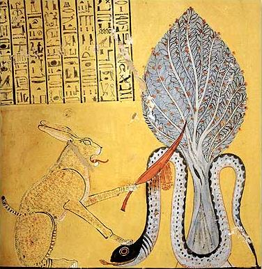 Ancient Egyptian art depicting Apep battling a deity.